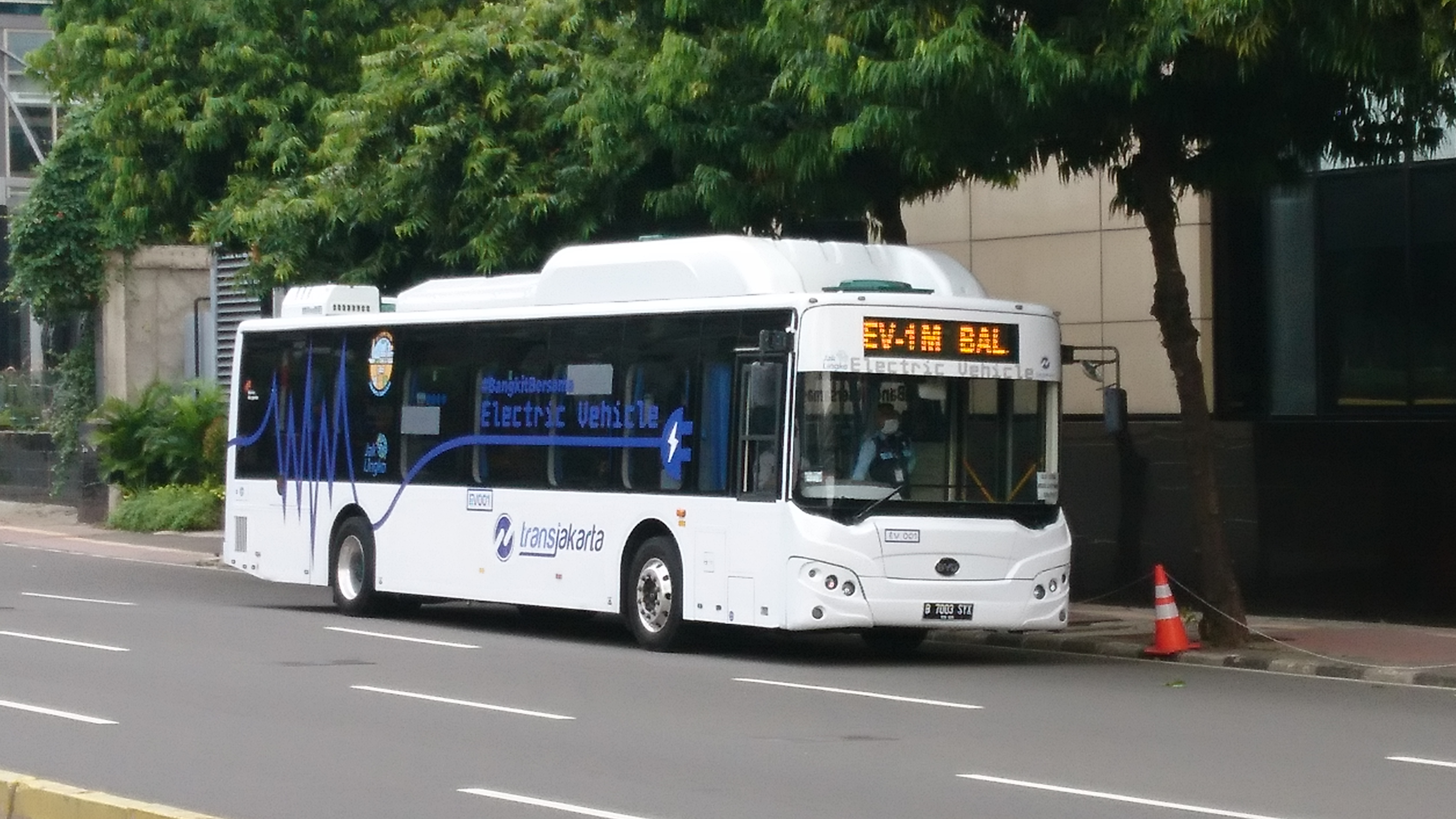 Trial run